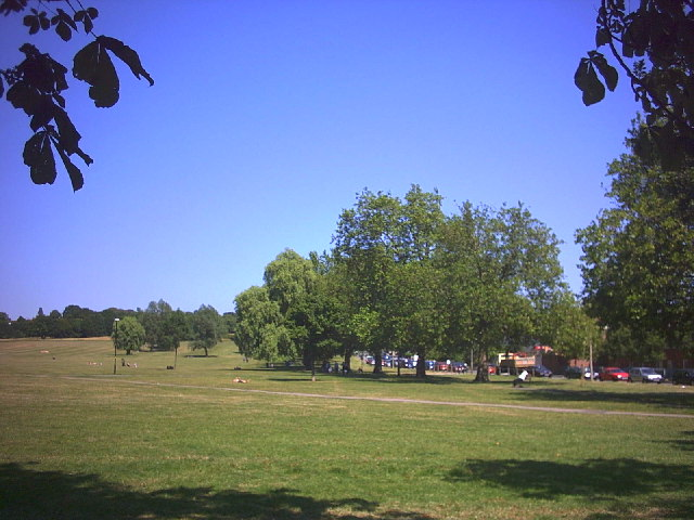 Streatham Common Original description: Streatham Common. South side, looking north-east.